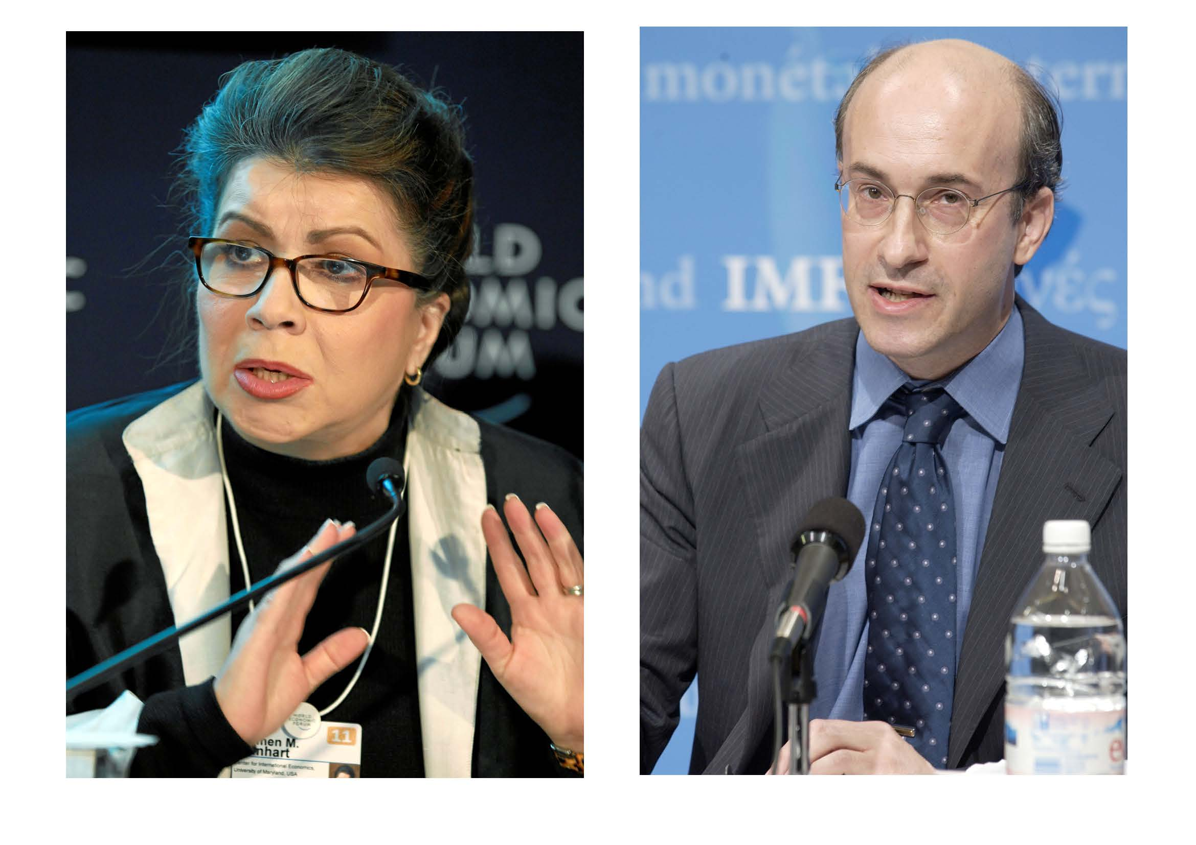 Combined two pictures from wikimedia commons to create this.